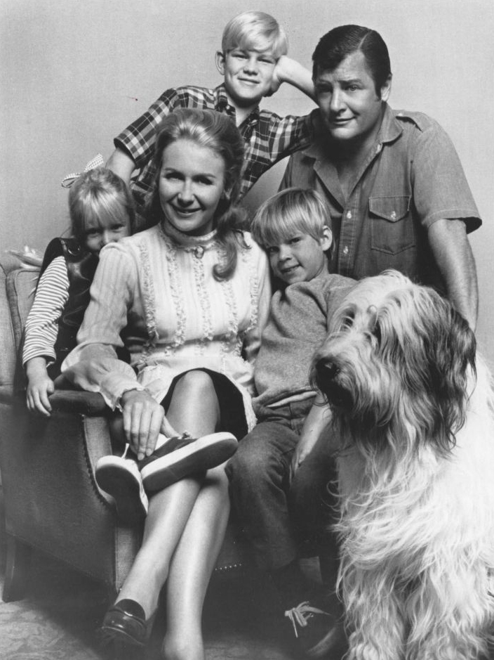 Publicity photo of (back row; L-R) David Doremus, Richard Long (front row; L-R) Kim Richards, Juliet Mills, Trent Lehman and "Waldo the Dog" promoting the premiere of the television series Nanny and the Professor.